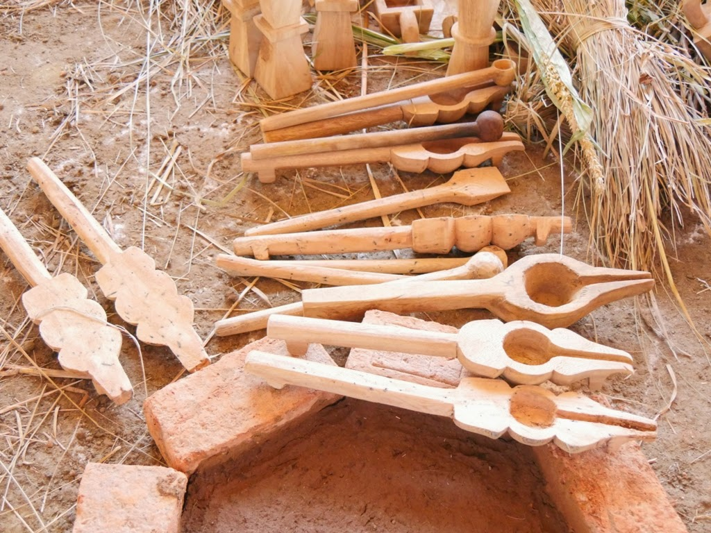 This picture of yajna implements is from Aptoryama Somayaga held at Gargeyapuram, Karnool from 23January 2015 to 1 February 2015. Photo is from the collection of Shri Rajashekhara Sharma. संस्कृतम्: यज्ञस्य पात्राणां एष बिंबः गार्गेयपुरम्, कर्नूल मध्ये 23-1-2015ई. तः 1-2-2015ई. यावत् ज्योतिष्टोम अप्तोर्याम सोमयागतः श्री राजशेखरशर्मणः महोदयस्य संग्रहात् गृहीतमस्ति।